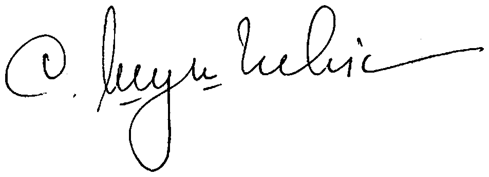 Signature of Stanislau Shushkevich.